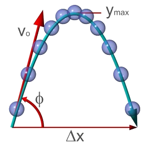 A diagram of a parabolic trajectory.